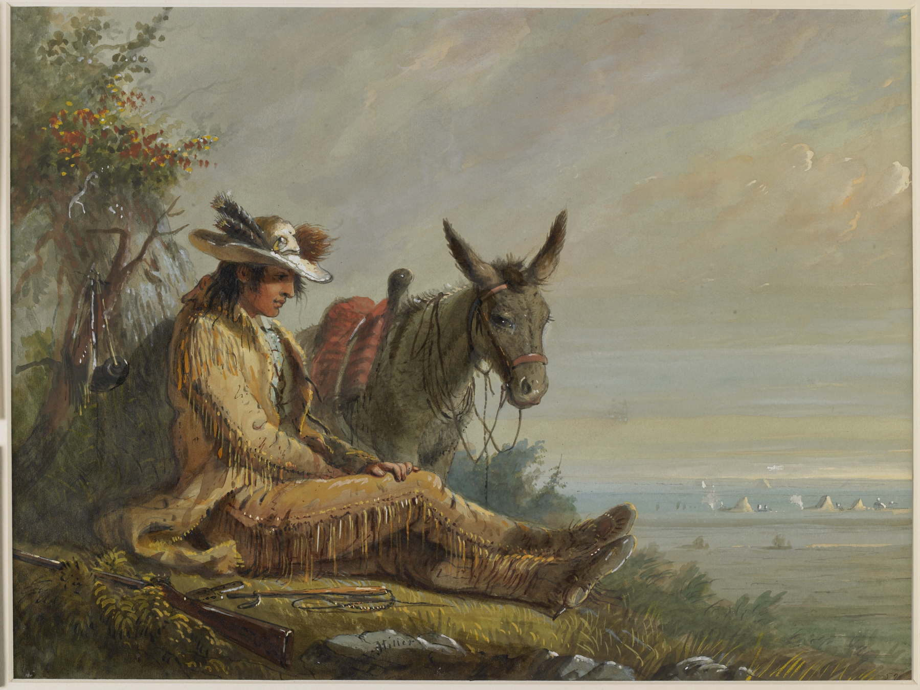 By the time Miller saw the fur trade, several famous personalities were involved, such as Jim Bridger, "Bourgeois" Walker, and Kit Carson. Of that group, it is interesting to note, Miller painted a portrait only of Walker. There are various other portraits of members of Stewart's group, such as Pierre, a seventeen-year old French Canadian and one of Miller's favorites. Dressed here in his buckskin shirt, his hat decorated with turkey feathers and a fox-tail brush, and holding his treasured pipe, Pierre is apparently deep in thought.